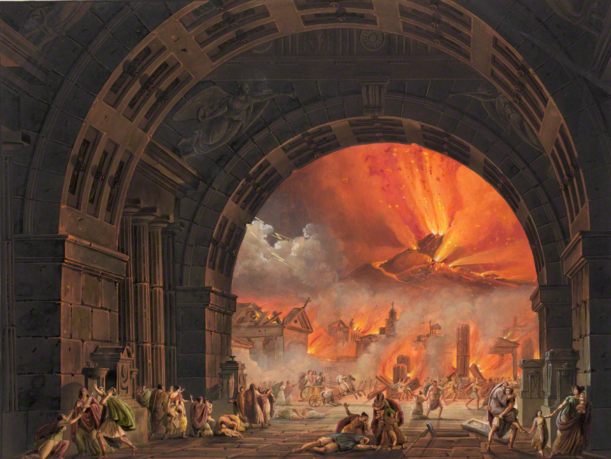 Alessandro Sanquirico's set design depicting the eruption of Vesuvius, the climactic scene of Giovanni Pacini's opera, L'ultimo giorno di Pompei which premiered at the Teatro San Carlo, Naples in 1825. This set design is from the 1827 La Scala Production.